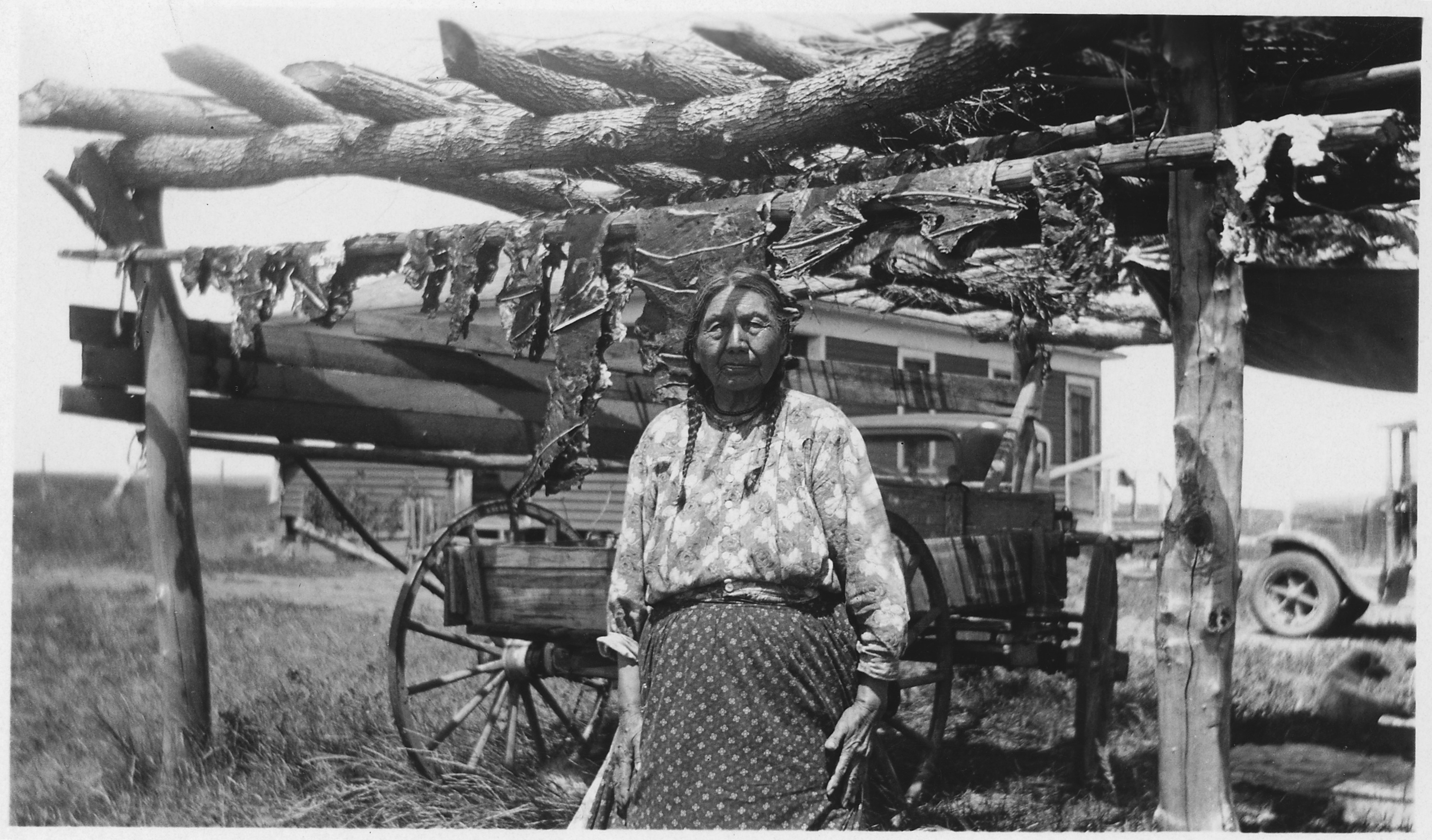 Scope and content: This item is a photograph of unidentified food drying on a rack outdoors. There is a woman standing in the foreground.